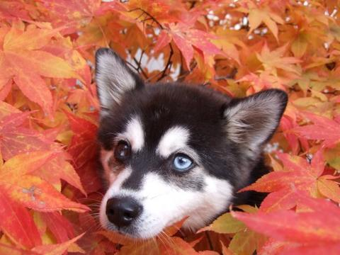 Kipnuk/Kiva bi-eyed male pup